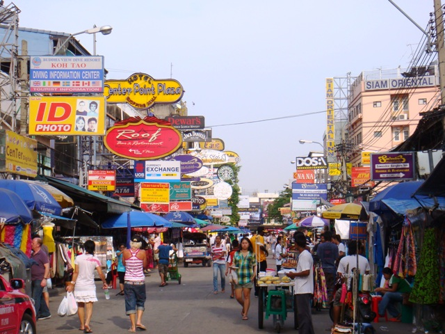 Khao San Road Taken by (WT-shared) Shoestring in April, 2009 Location: Bangkok